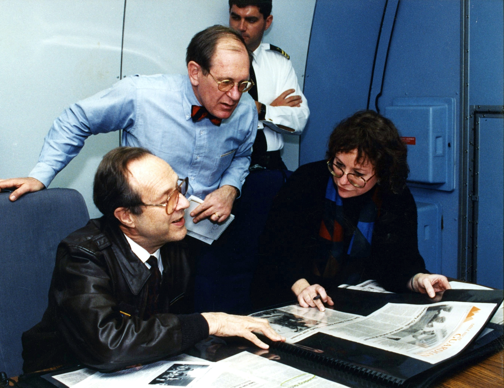 "U.S. Defense Secretary William J. Perry, left, and Ken Bacon, assistant secretary of defense for public affairs, look through clippings from military newspapers with then-AFPS reporter Linda Kozaryn during a flight to Europe in the summer of 1995."